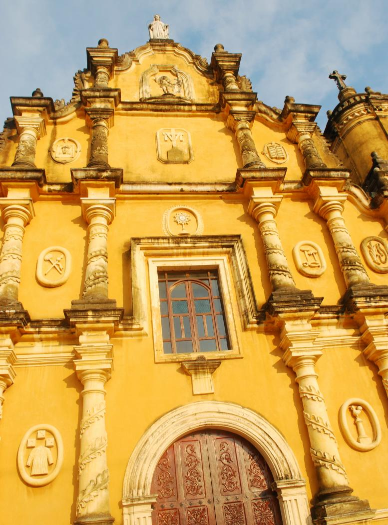 Church of la Merced, León, Nicaragua